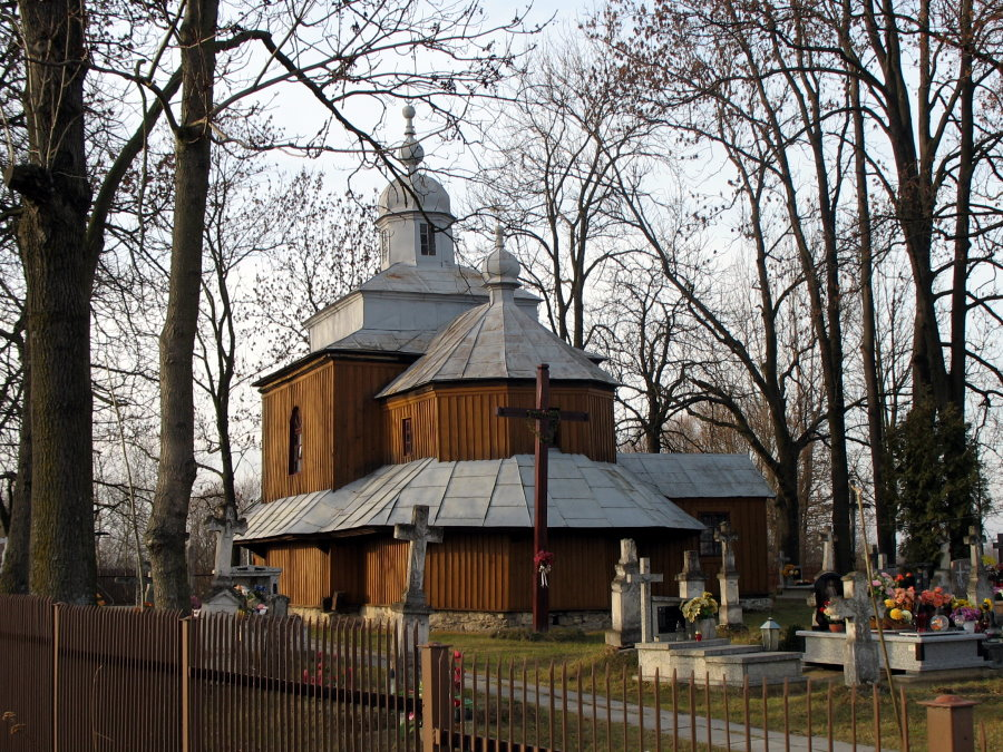 Borchów (Poland), Greek Catholic church (from 1971 Roman Catholic church)